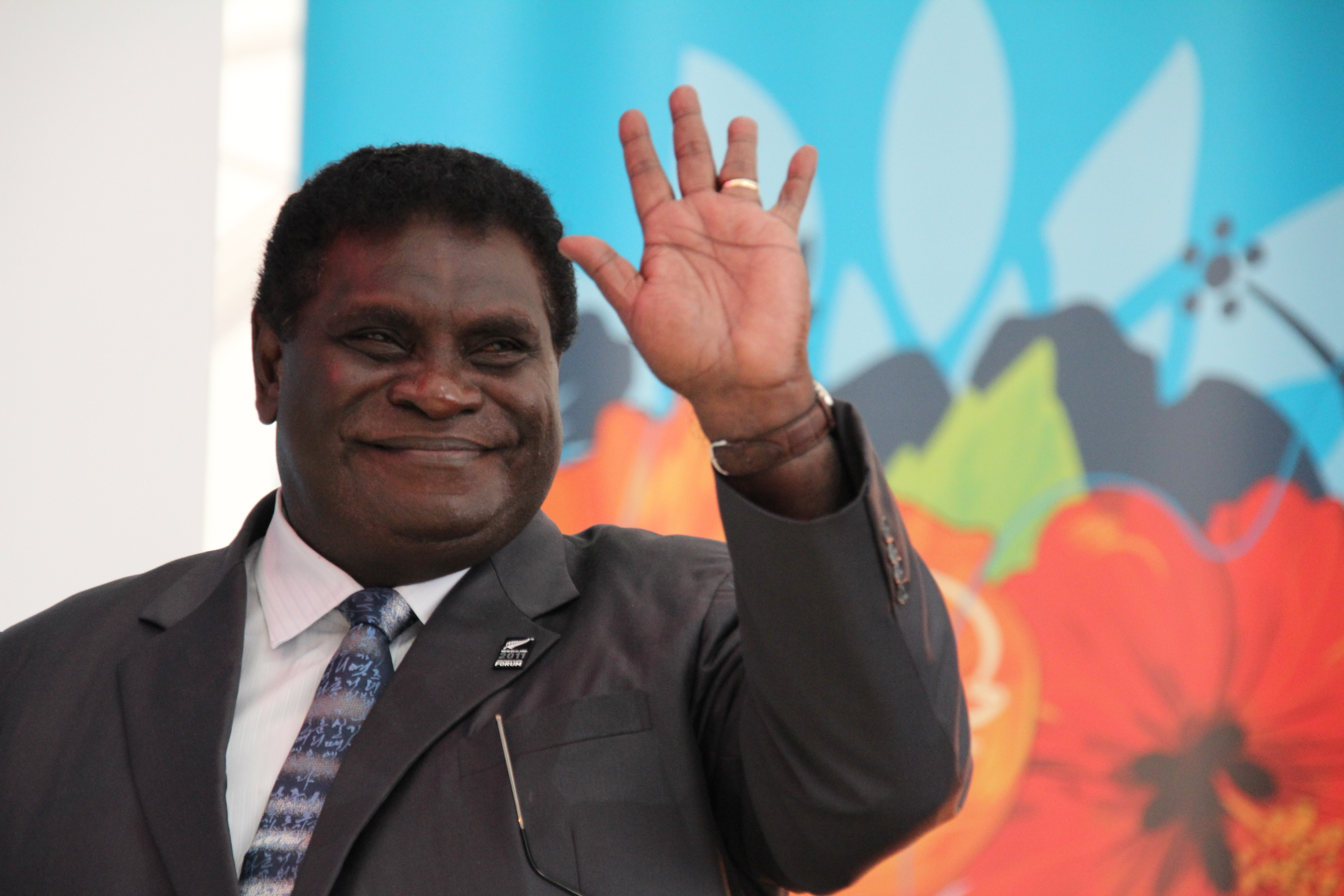 Danny Philip, the Prime Minister of Solomon Islands, at the 42nd Pacific Islands Forum in Auckland